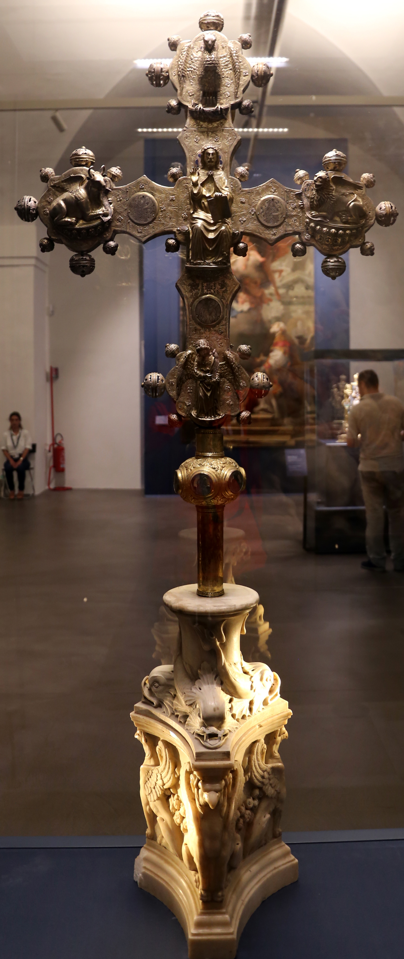 Facciamo presto! (2016-2017 exhibition)